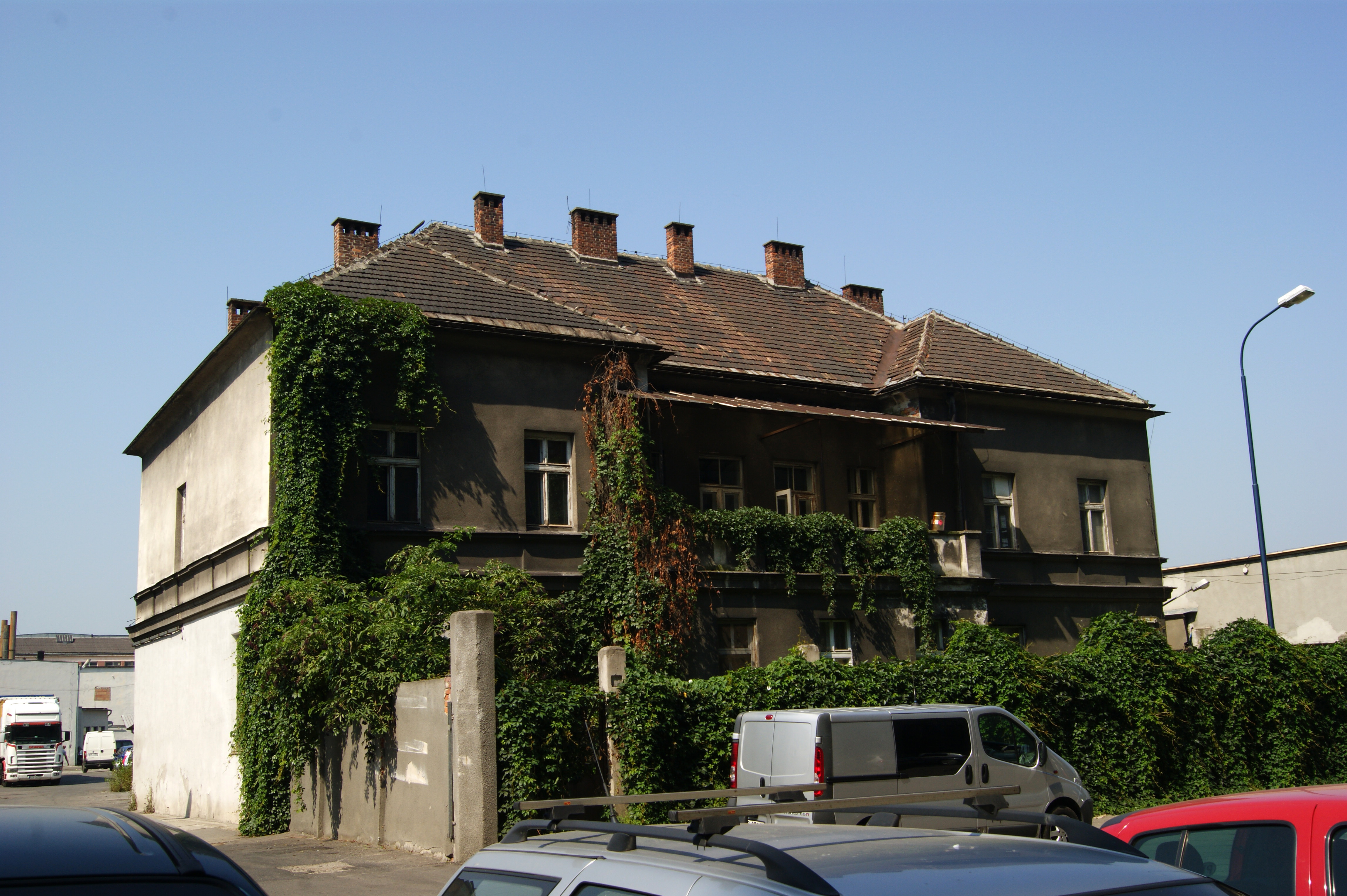 Oskar Schindler's Villa, 9 Romanowicza street, Zablocie, Krakow, Poland